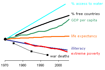 Key developments in the world with 1970 as base year. Water: estimated % of third world inhabitants with access to safe water. See File:Access to drinking water in third world small.GIF. Free countries: % of countries designated as free by Freedom House. GDP per capita: world GDP per capita according to Angus Maddison. Life expectancy: world life expectancy according to World Bank World Development Indicators. Illiteracy: world adult illiteracy according to UNESCO. Extreme poverty: % living on less than $1,25 per day in the developing world according to the World Bank. War deaths: global war deaths per decade per 1000 people according to Human Security Report